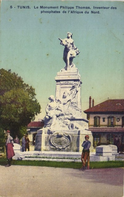 Monument inaugurated in Tunis on 29 May 1913 in honour of Philippe Thomas (1843–1910), French veterinarian and amateur geologist who discovered the phosphate deposits of Tunisia